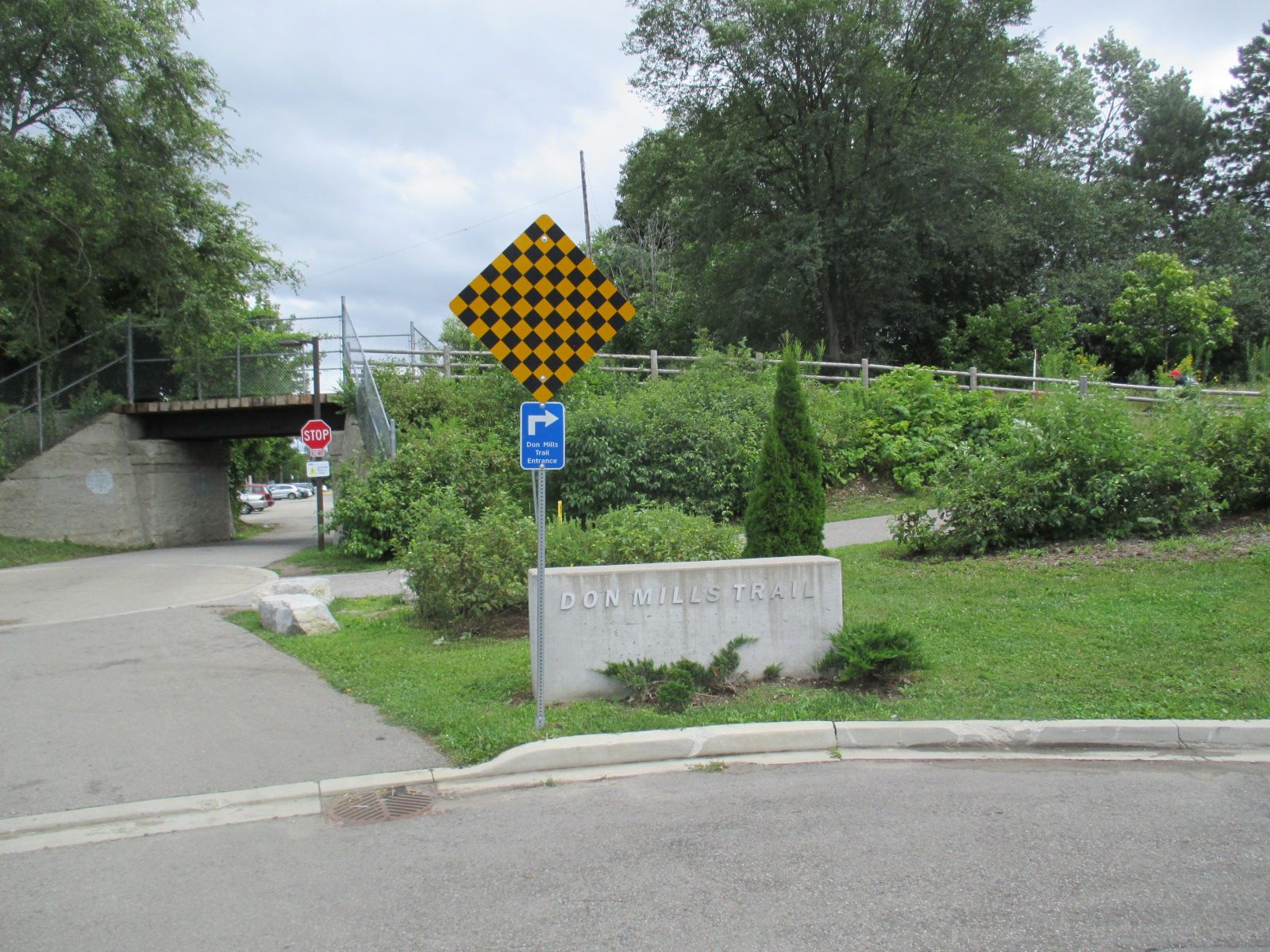 Bond Avenue entrance to Don Mills Trail which climbs over the former railway bridge on the left of the picture.